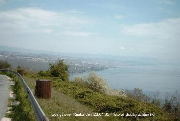 View on Rijeka from Istria on 23.04.2005.